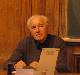 J. Bouveresse, French philosopher, at Sorbonne.